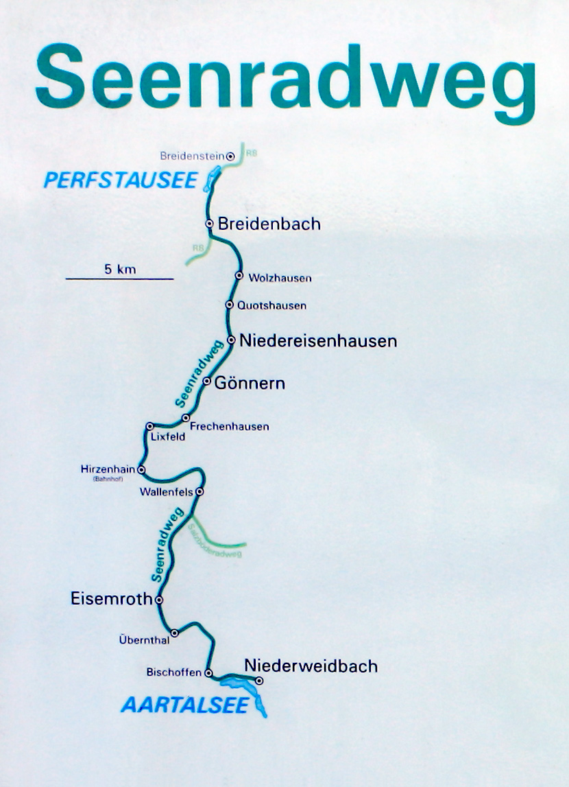 Cycling route "Seenradweg" in Middle Hesse. Sign at Aar Dam.